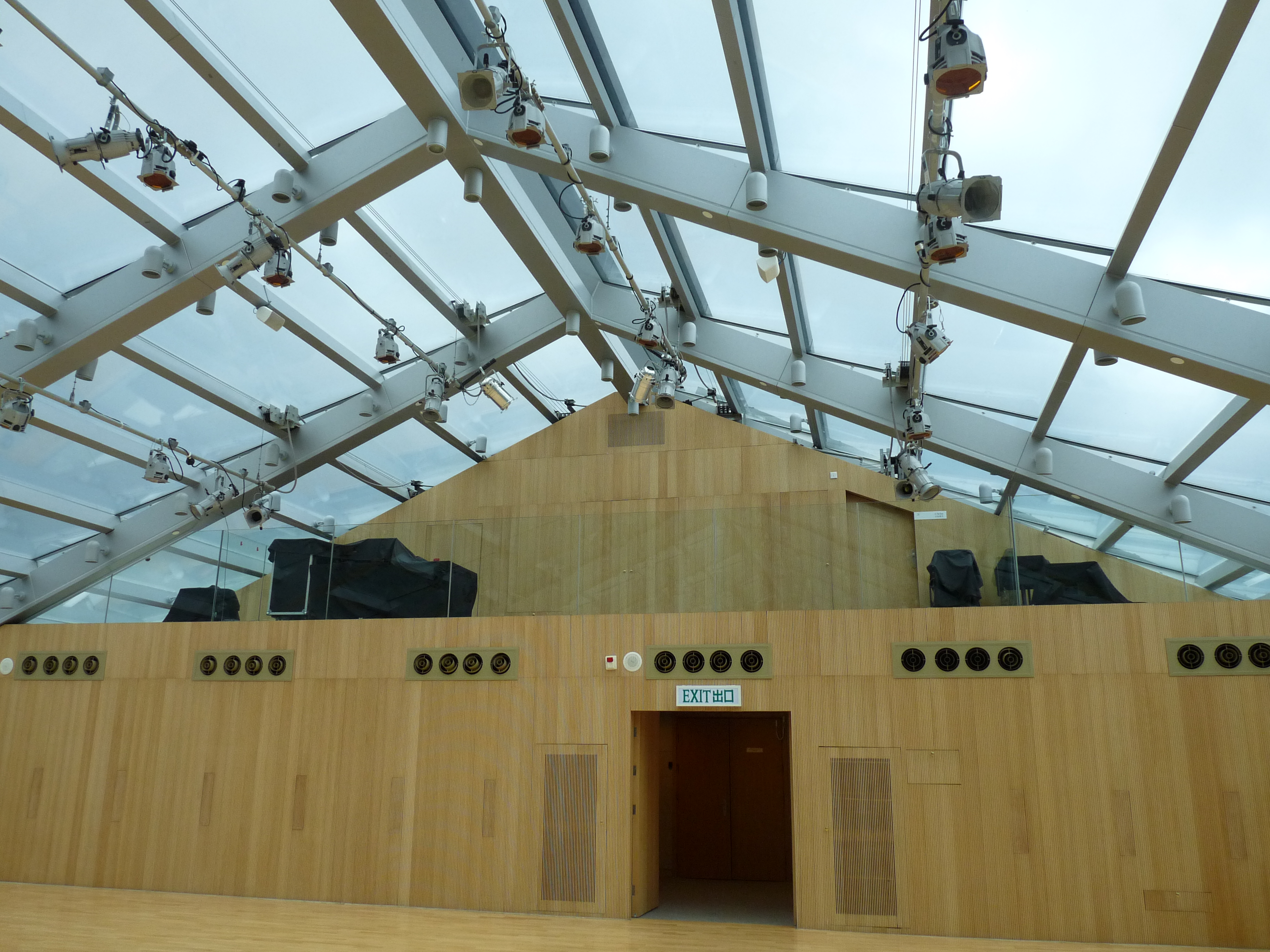 A pitched roof was restored in Sir Yuk Pao Studio, Bethanie. A glazed roof was reinstated during the restoration project.